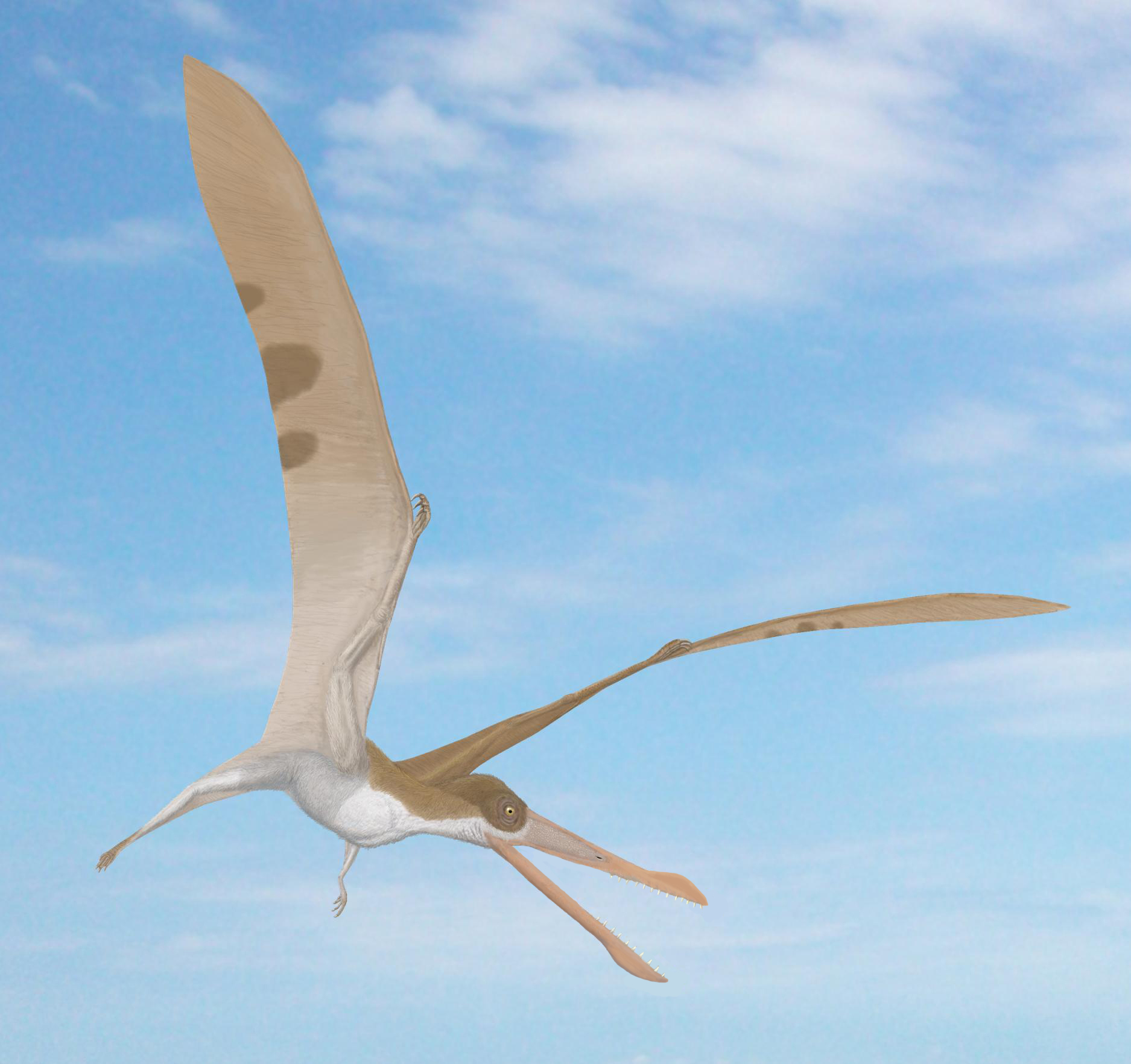 Life restoration of Cearadactylus atrox. Based on figure 2 of "On the systematic relationships of Cearadactylus atrox, an enigmatic Early Cretaceous pterosaur from the Santana Formation of Brazil" by D. M. Unwin Mitteilungen Museum für Naturkunde Berlin, Geowissenschaftlichen Reihe 5: 239-263